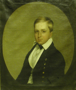 Artist: Chester Harding, American, 1792 - 1866 Charles Woodward Stearns (1817-1887), B.A. 1837 1832 oil on canvasmedium QS:P186,Q296955;P186,Q12321255,P518,Q861259